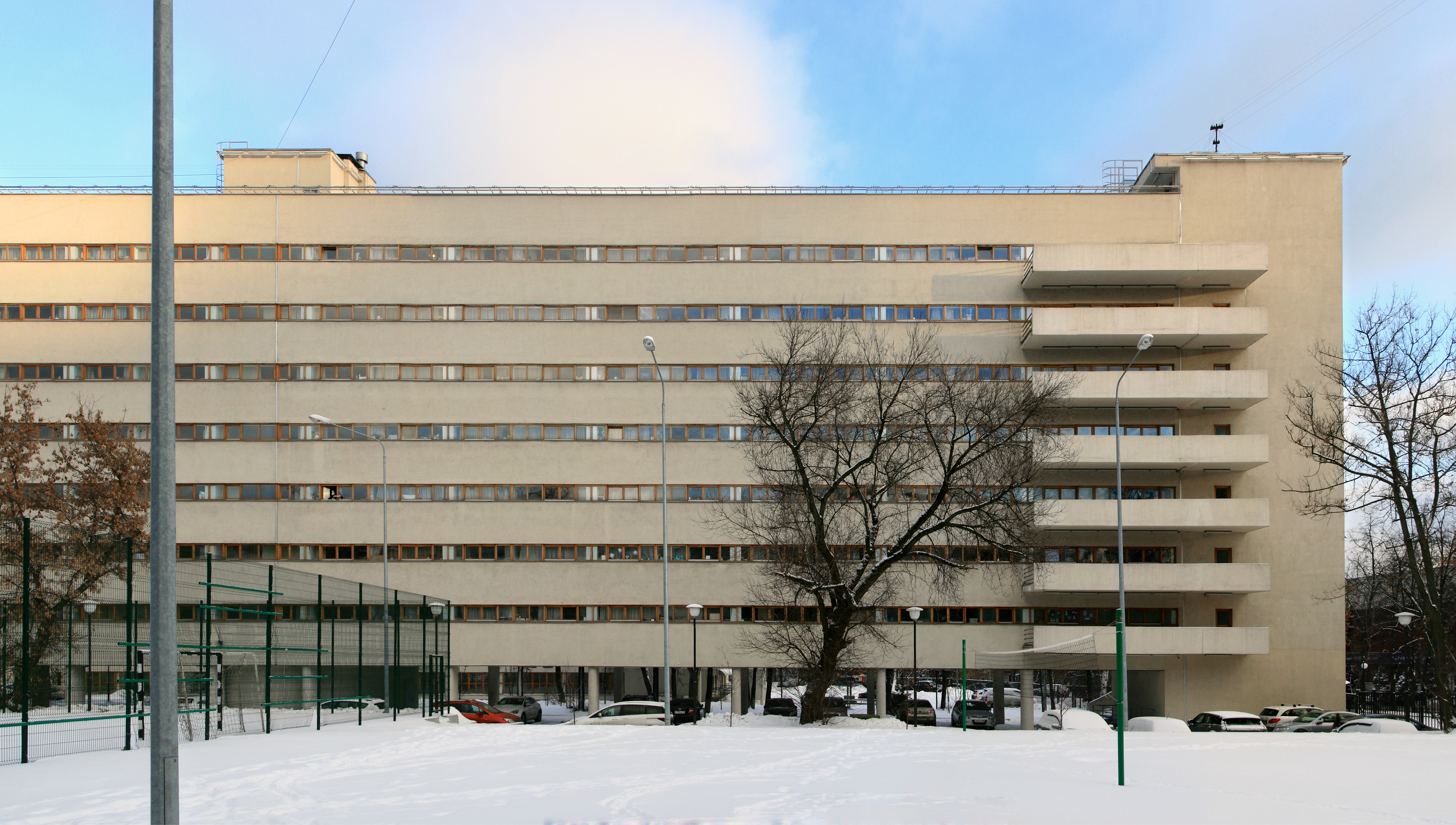 Communal House, Ordzhonikidze Street/Donsloy proezd 8/9, Moscow, Russia